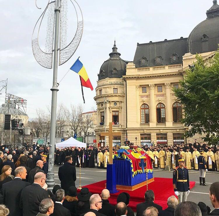 Final rites of King Michael carried out by Orthodox deacons in the Revolution square